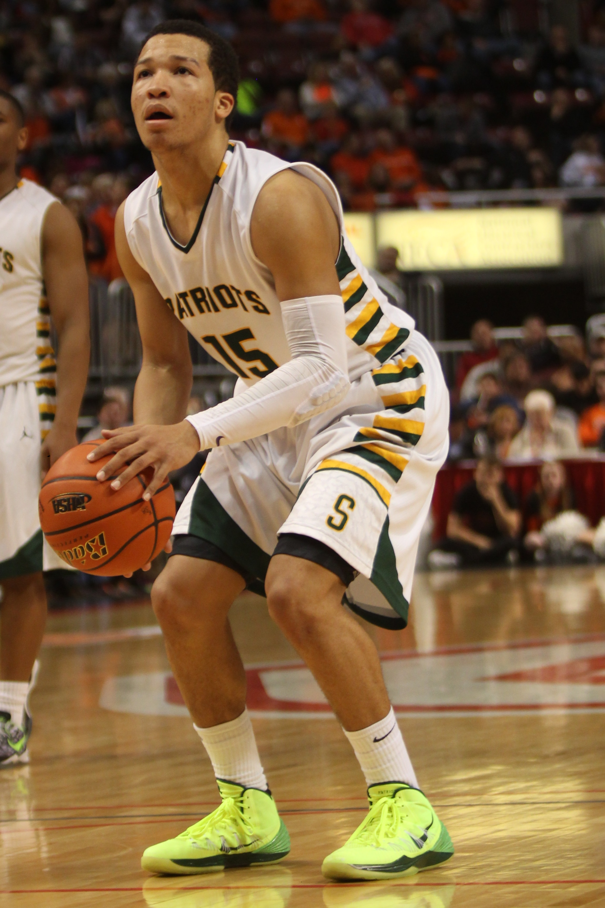 Jalen Brunson at the 2014 Class 4A Illinois High School Association consolation game